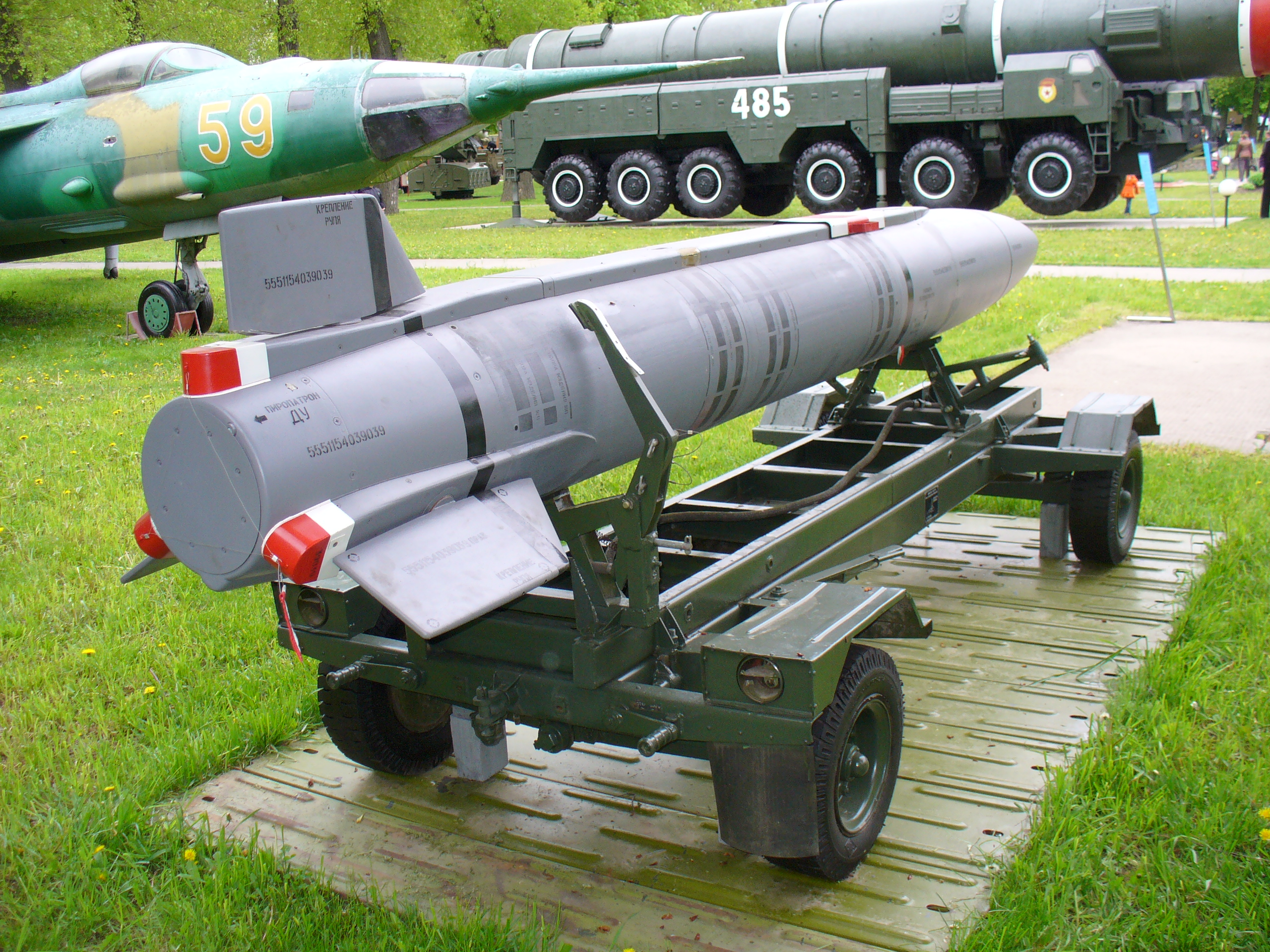 AS-16 Kickback Raduga Kh-15 in the museum of Ukrainian Air Force